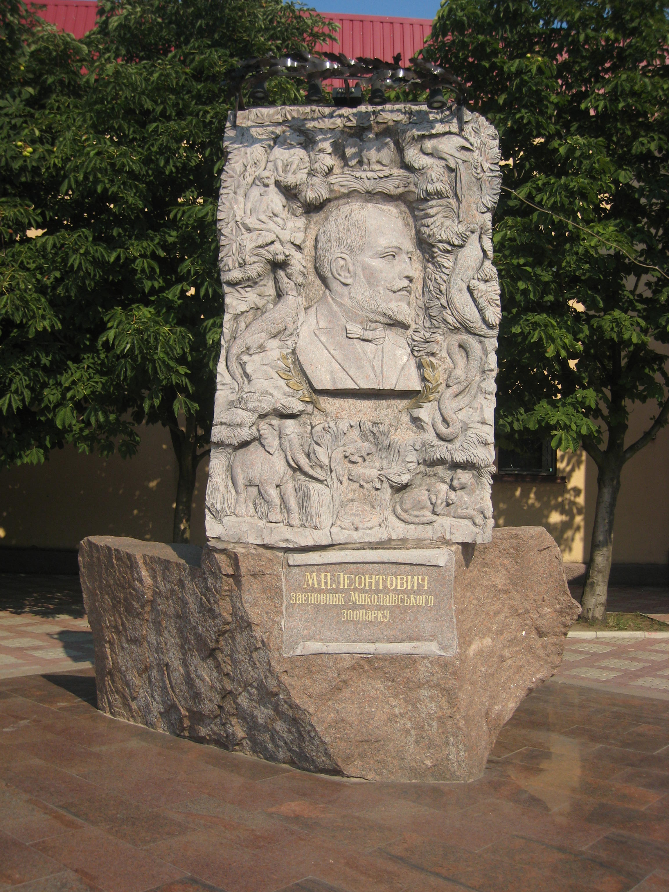 Monument to Nicholas Leontovich in Mykolaiv, Ukraine.